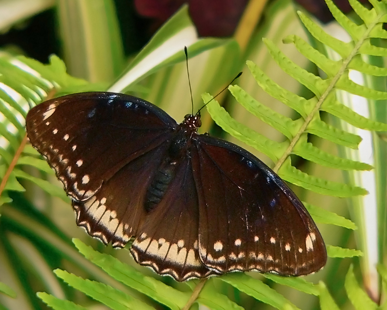 Great eggfly -female. Taken at Krohn Conservatory butterfly show.